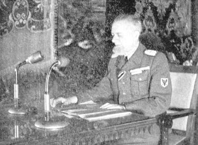 Leon Rupnik